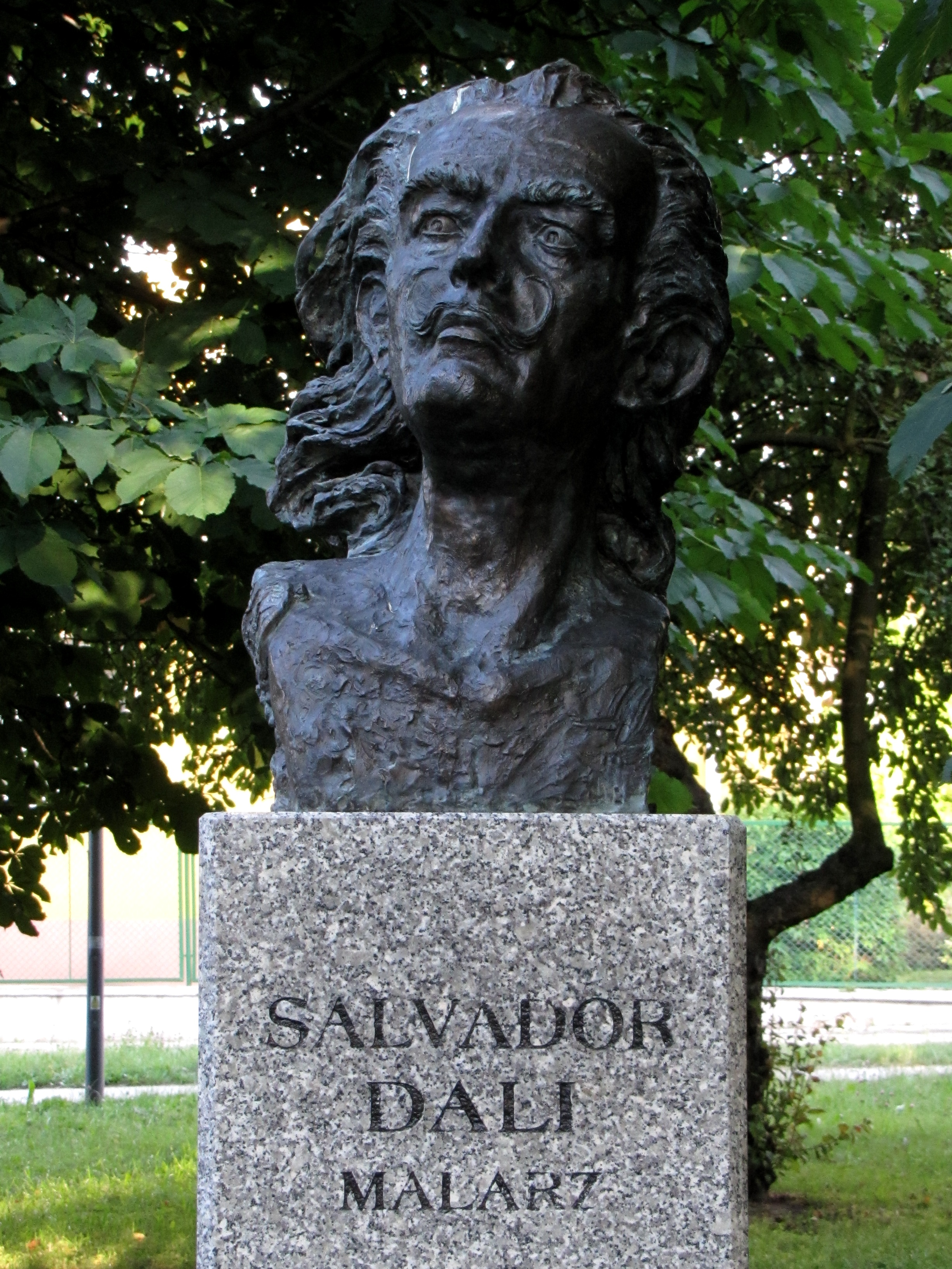 Bust of Salvador Dalí in Celebrity Alley in Kielce (Poland)